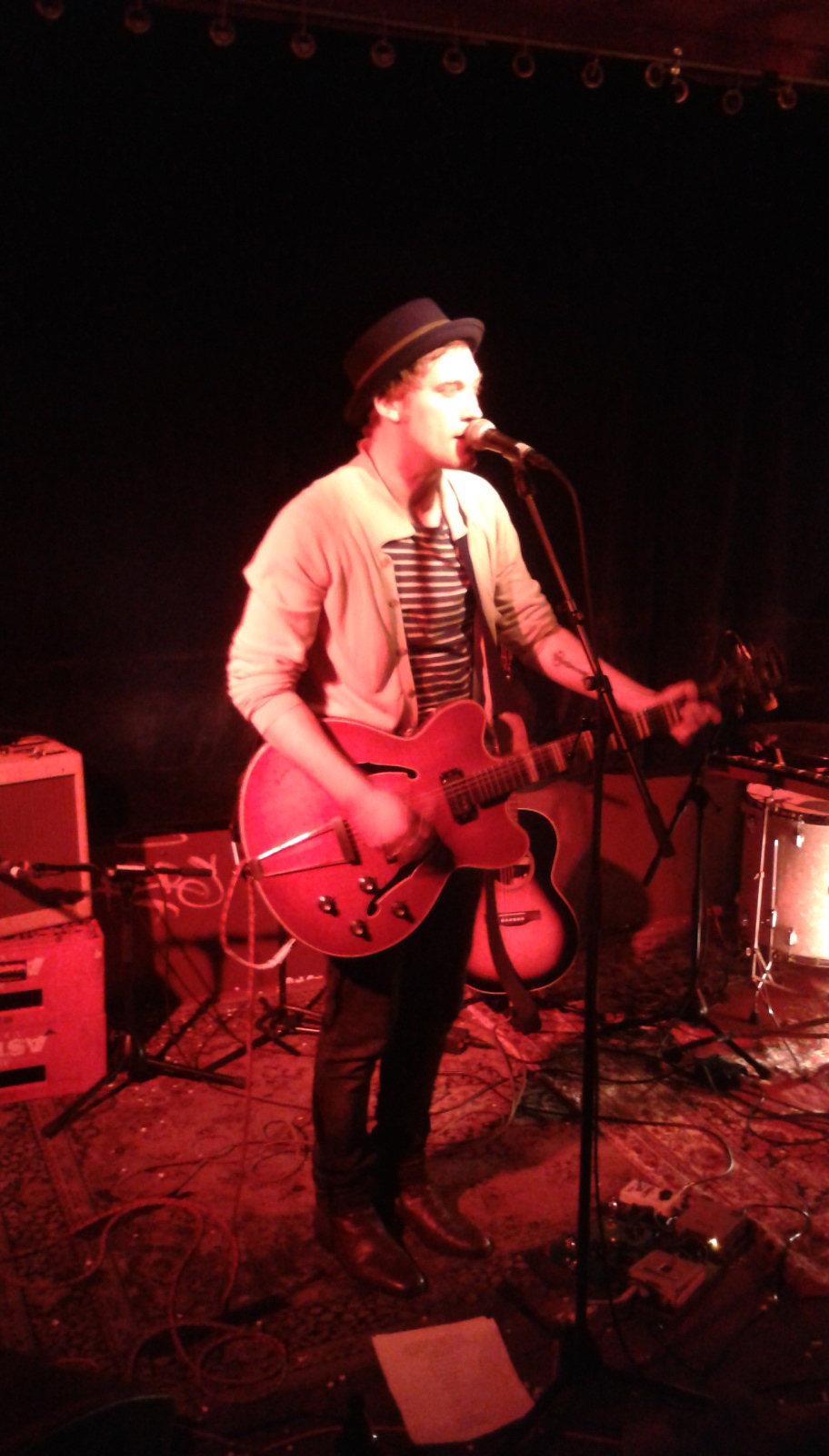 Nicolas Sturm, Hamburg Astrastube 2013